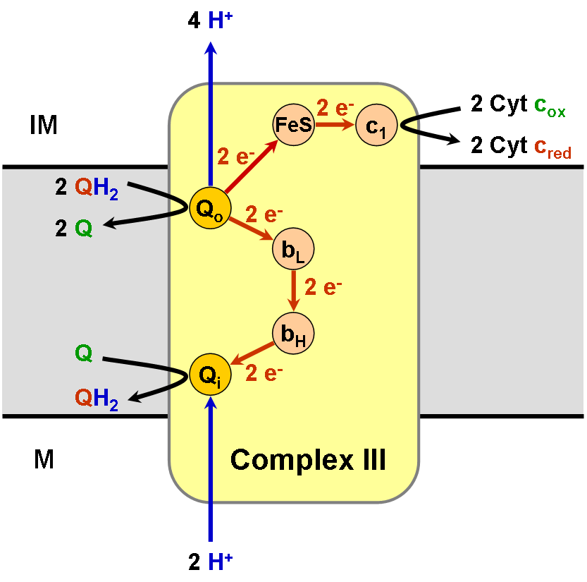 electron transport chain complex III (coenzyme Q : cytochrome c — oxidoreductase, cytochrome bc1 complex)